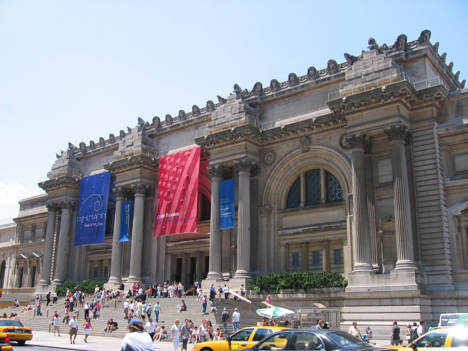 Metropolitan Museum of Art in New York City.